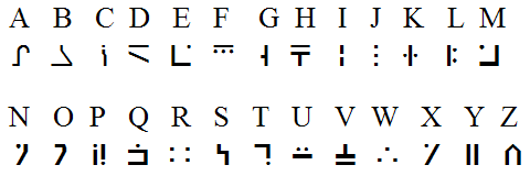 Translation of the Standard Galactic Alphabet from the Commander Keen computergames